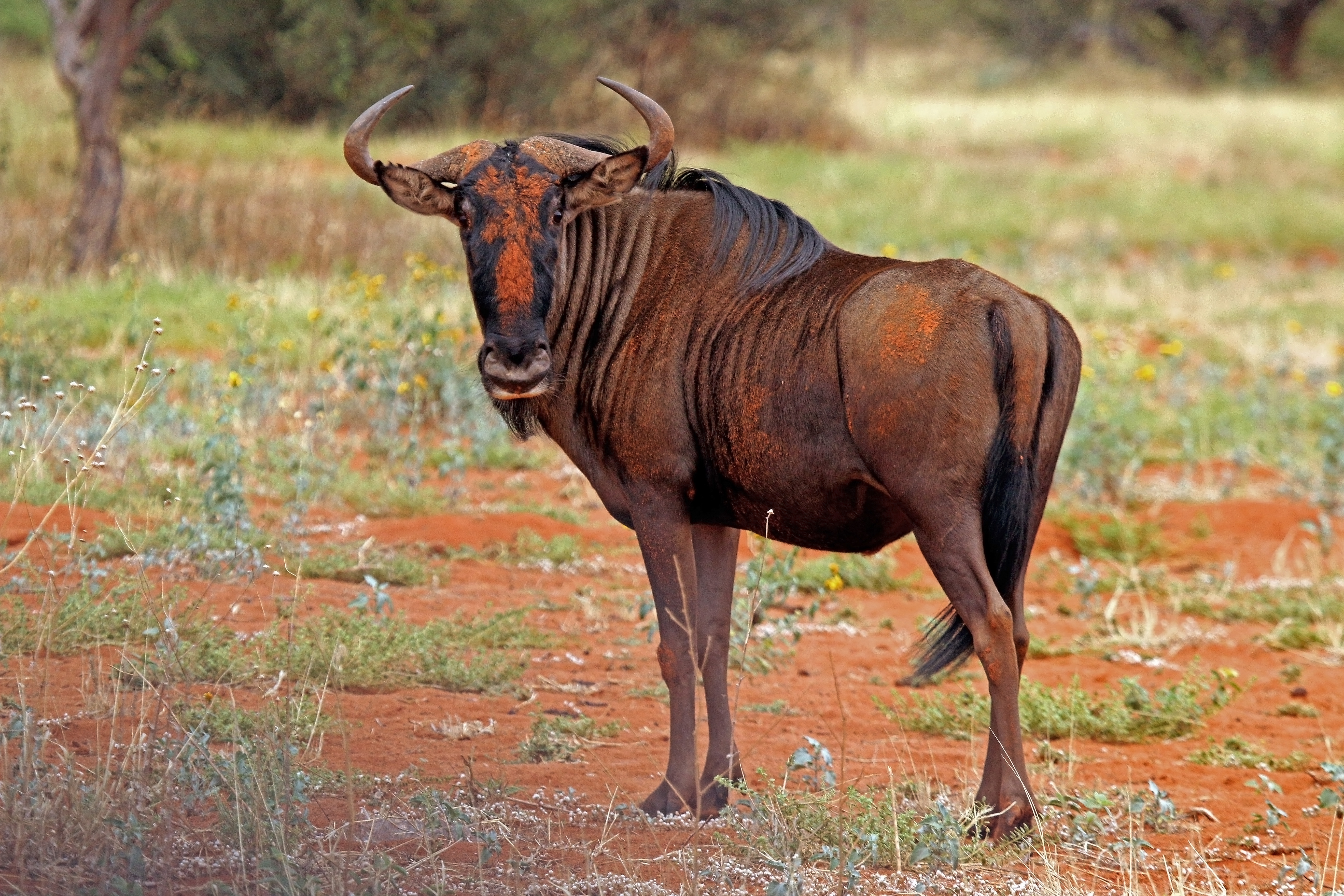 Blue wildebeest (Connochaetes taurinus), male, Tswalu Kalahari Reserve, South Africa